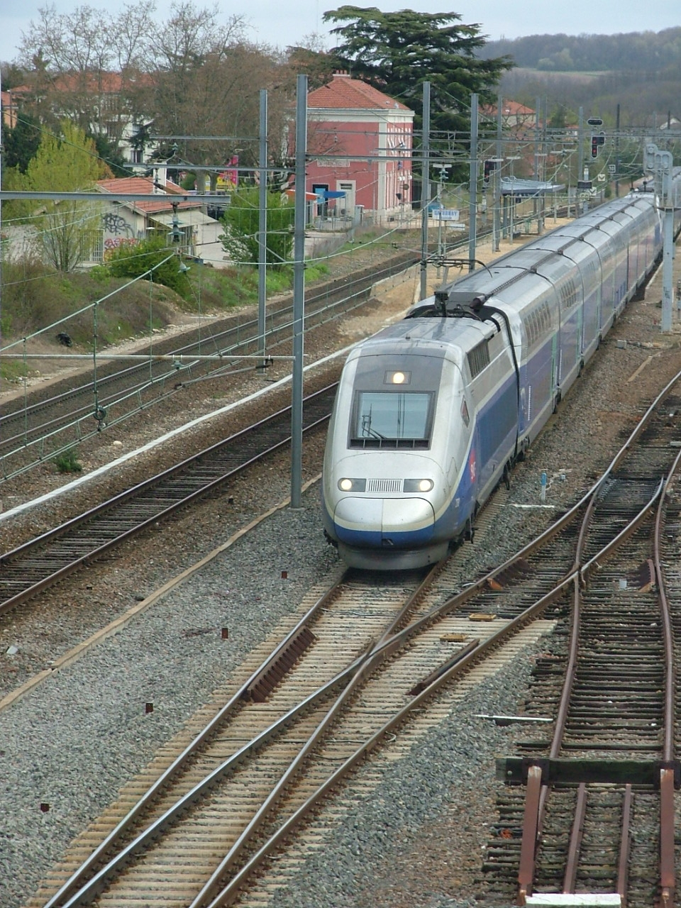 TGV in Sathonay-Camp Rillieux railway station